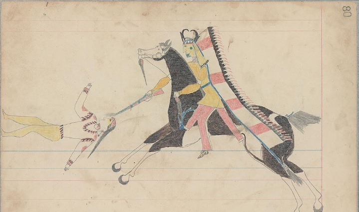 Anonymous ledger drawing of a Cheyenne warrior killing a dismounted enemy warrior. The Cheyenne warrior wears a pronghorn antelope horned headdress, a symbol of the Crazy Dog military society of the Cheyenne.